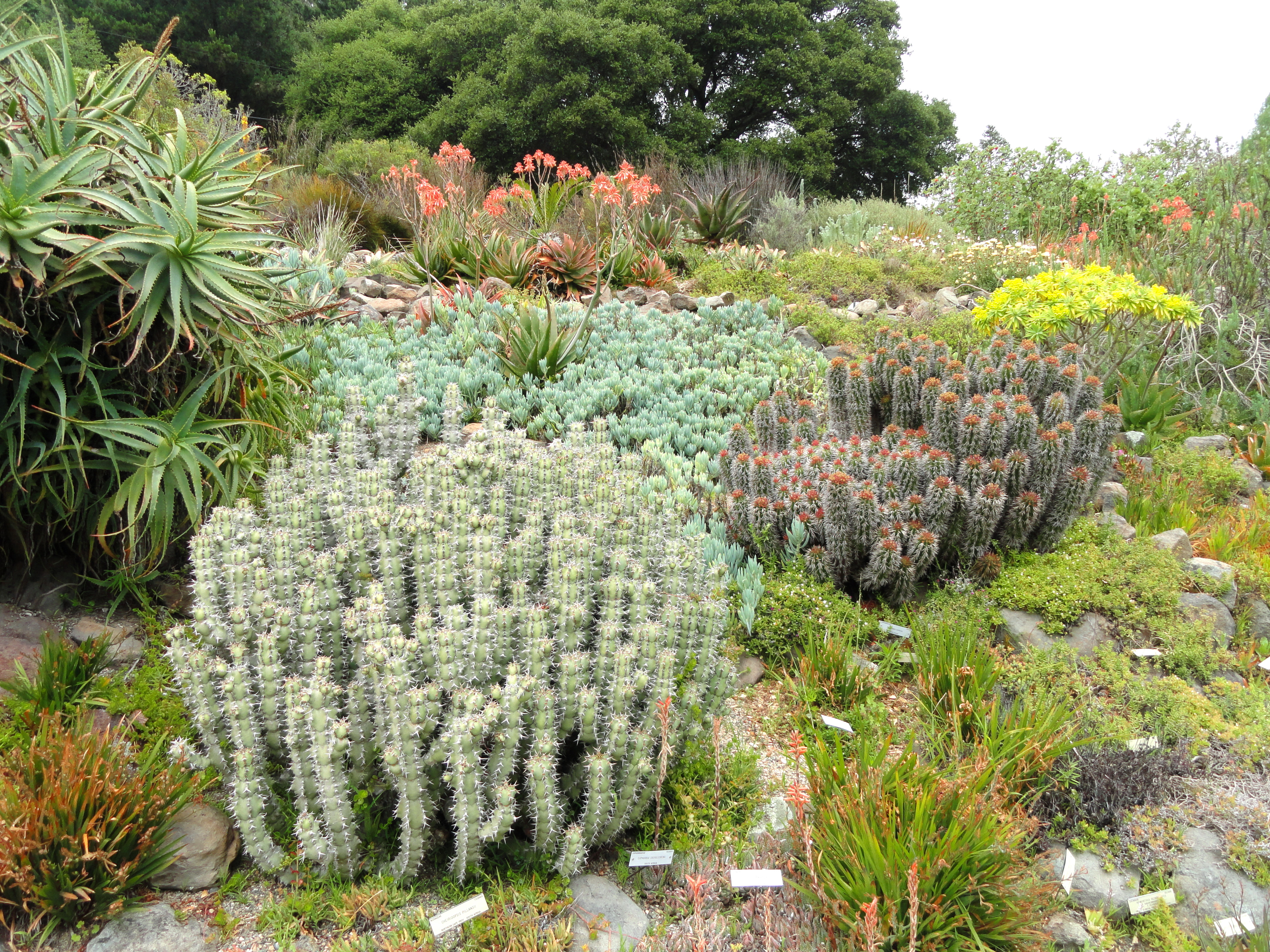 General view of the University of California Botanical Garden, Berkeley, California, USA.